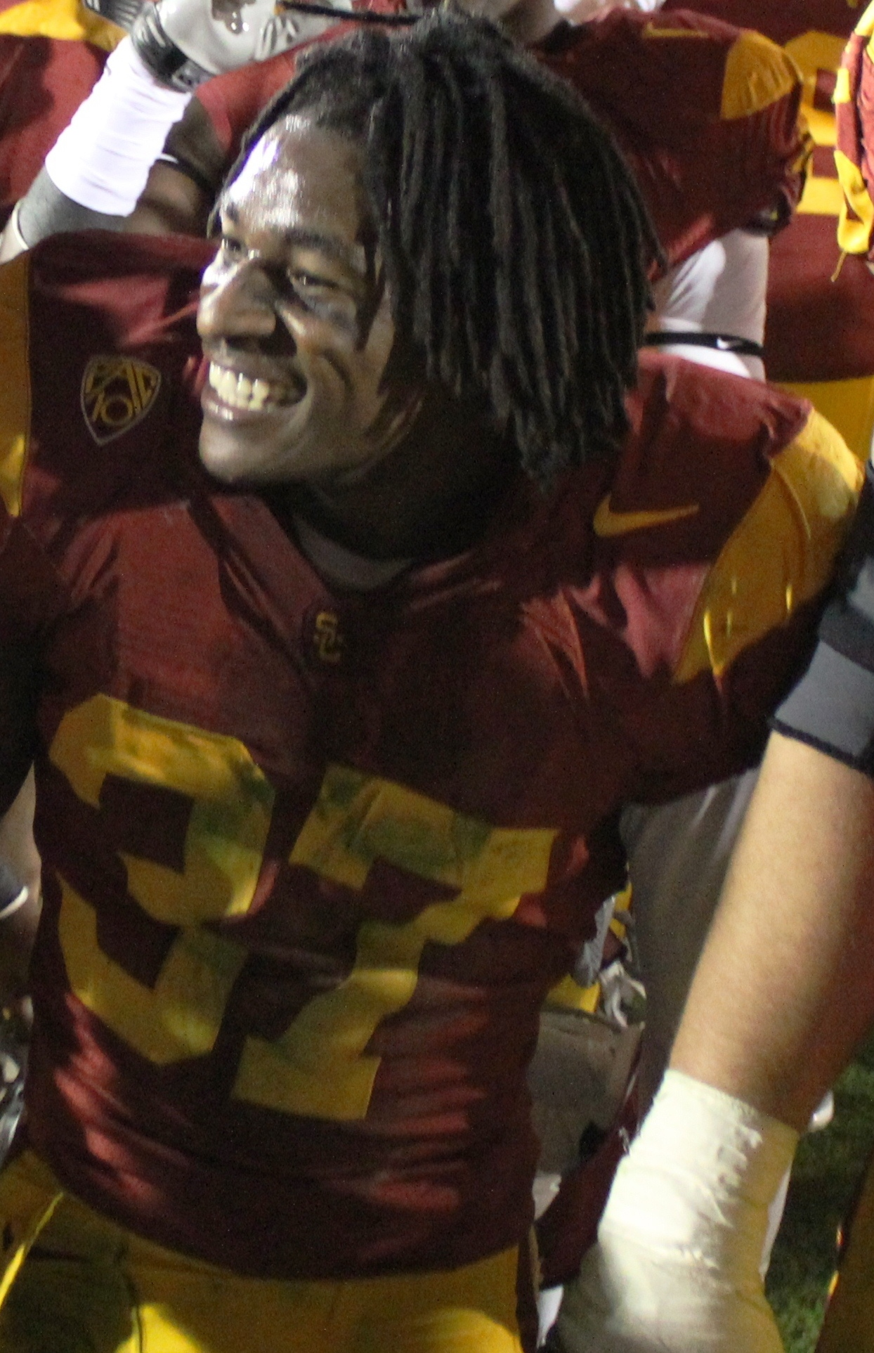 USC cornerback Nickell Robey celebrates USC's win over UCLA in 2010.